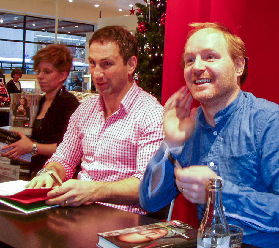 Morgan Alling (right) and Paolo Roberto (left), swedish actors, sign there books, Åhléns, Stockholm